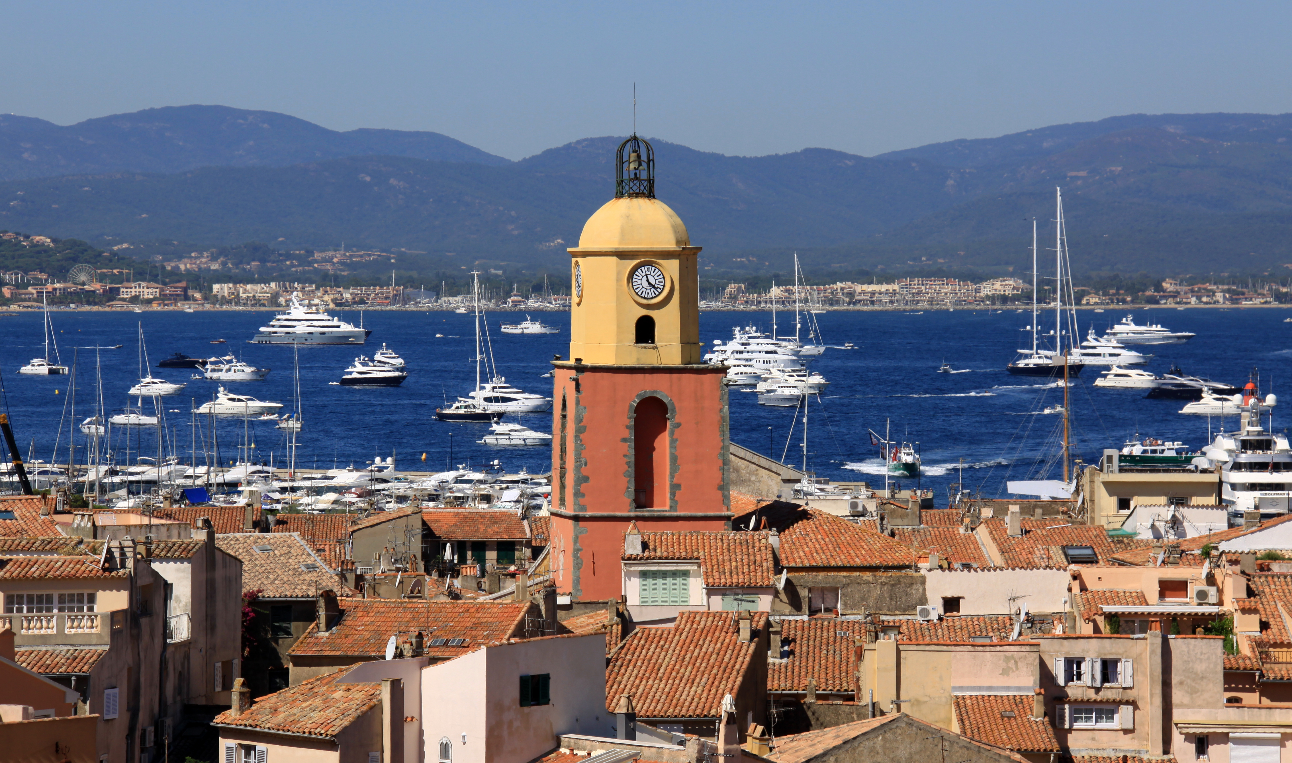 Saint Tropez, the church tower